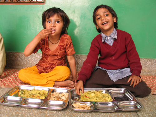 Slum children at the Food for Life School in Vrindavan, India enjoying their lunch